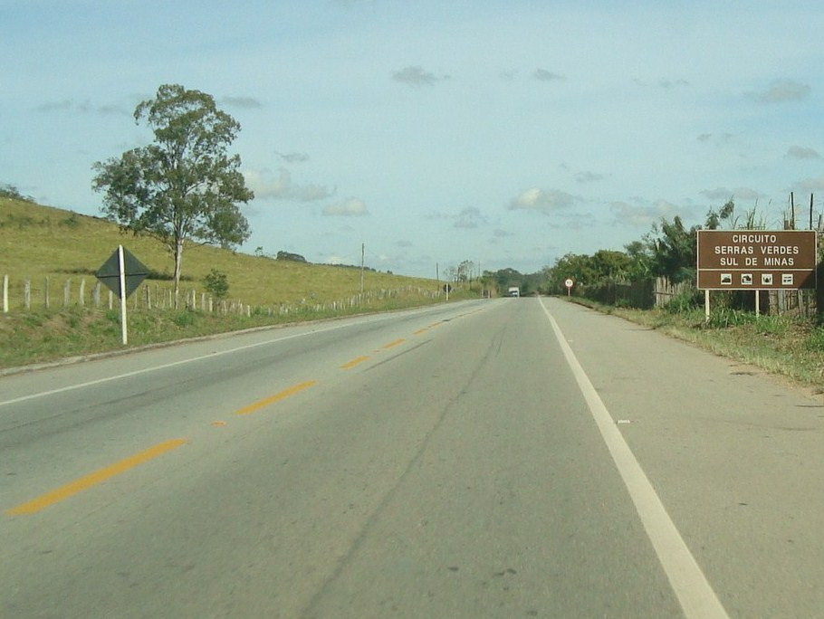 Road BR-459 in Santa Rita do Sapucaí, Minas Gerais, Brazil